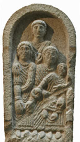 Galician Celtic Stele for the deceased, called Apana, presumably an aristocrat of the tribe of Celtic Supertamáricos. Second Century of the Common Era